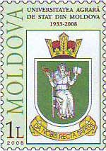 Stamp of Moldova. In 1933, Sfatul Ţării Palace became the first building of the Agricultural State University of Moldova